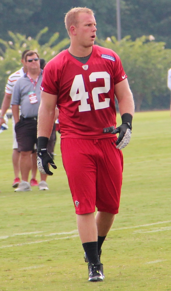 Patrick DiMarco at Falcons training camp, 2013